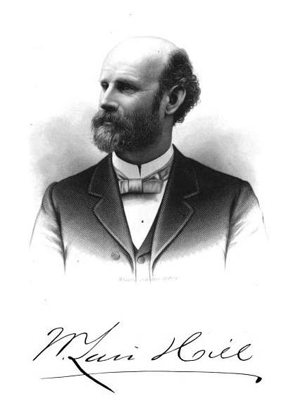 William Lair Hill, late 19th century Pacific Northwest lawyer and judge. Also for a time editor of the Portland Oregonian.